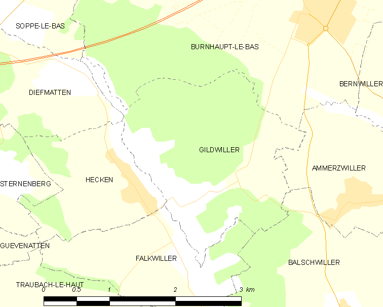 Map of French municipality